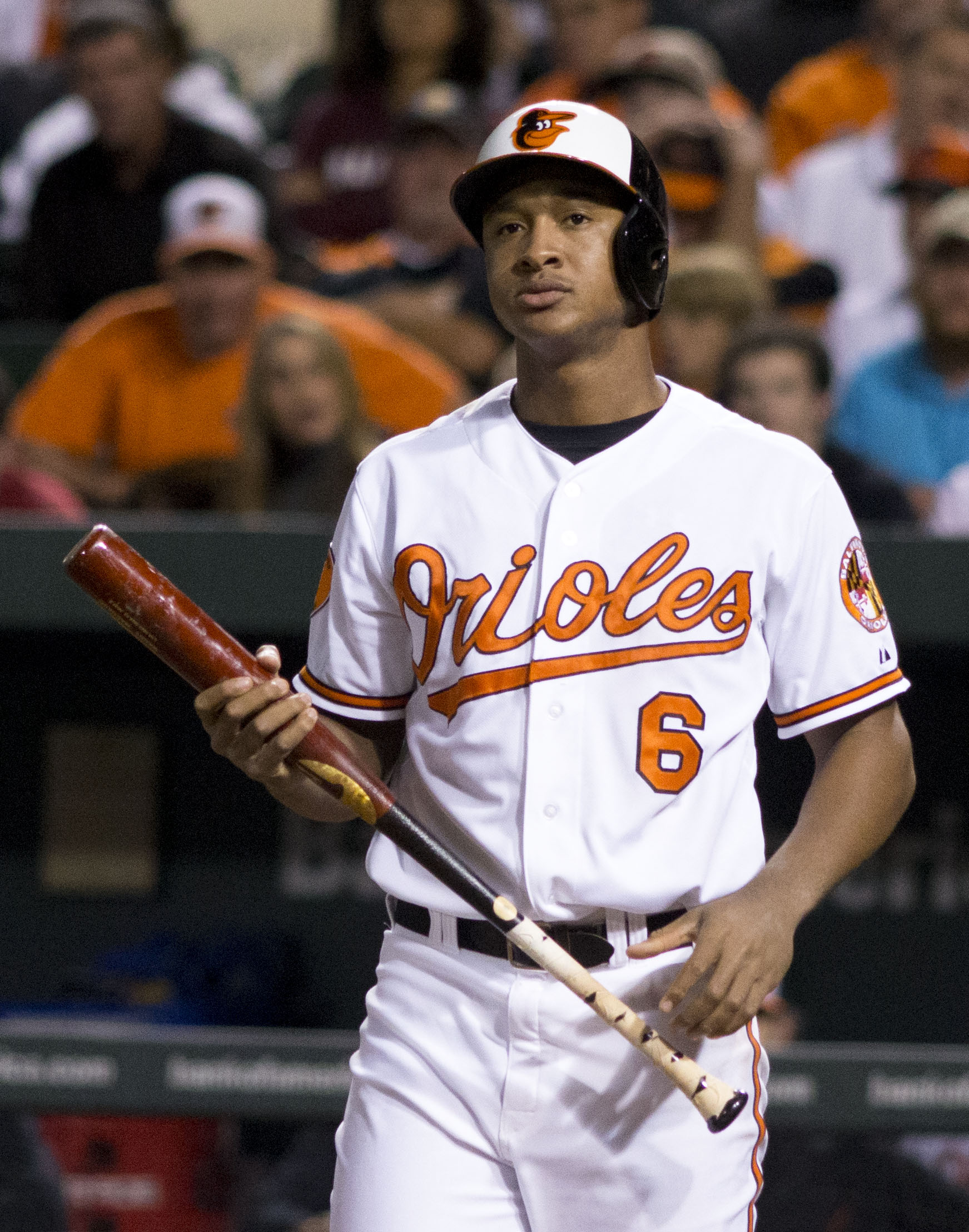 Jonathan Schoop